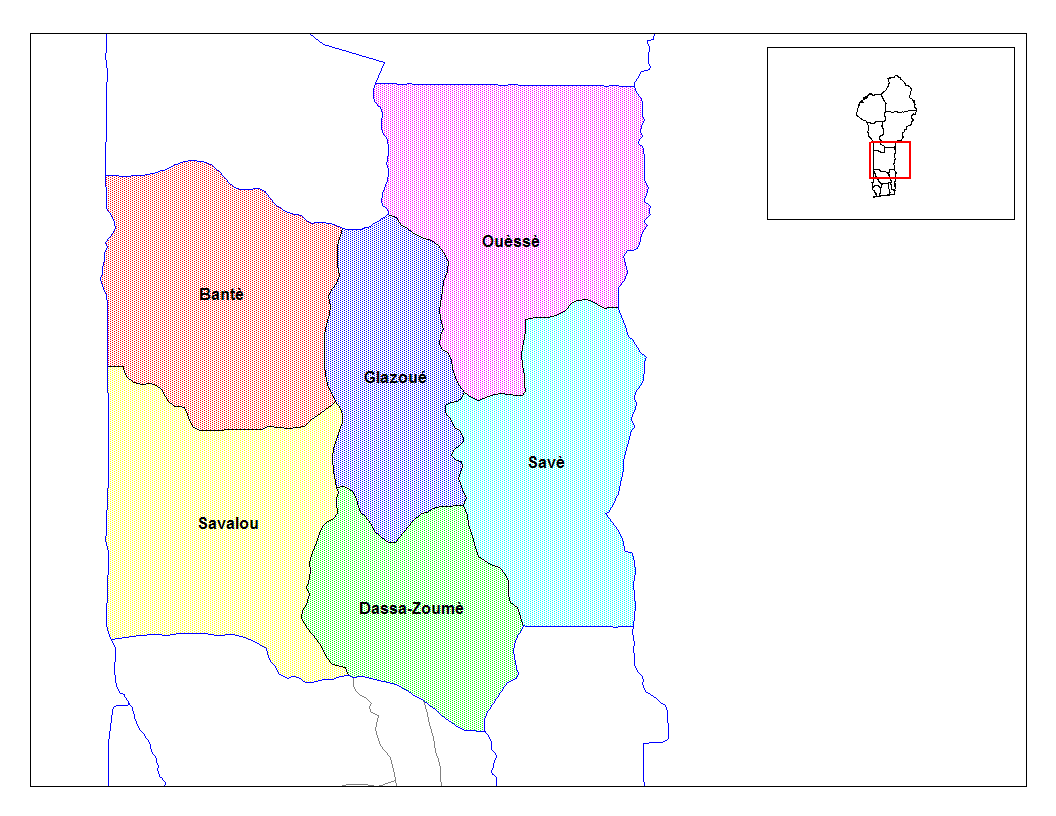 Map of the communes of the department of Collines, Benin. Created by Rarelibra for public domain use. Created using MapInfo Professional v7.5 and various mapping resources.